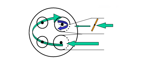 how cylinder vortex is created by swirl flaps in the intake manifold